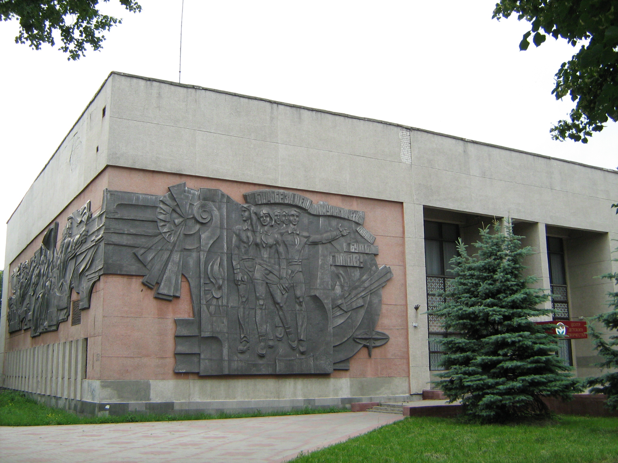 Pioneer's Palace (now, Children's Creative Activity Center) in Komintern St in central Sormovo